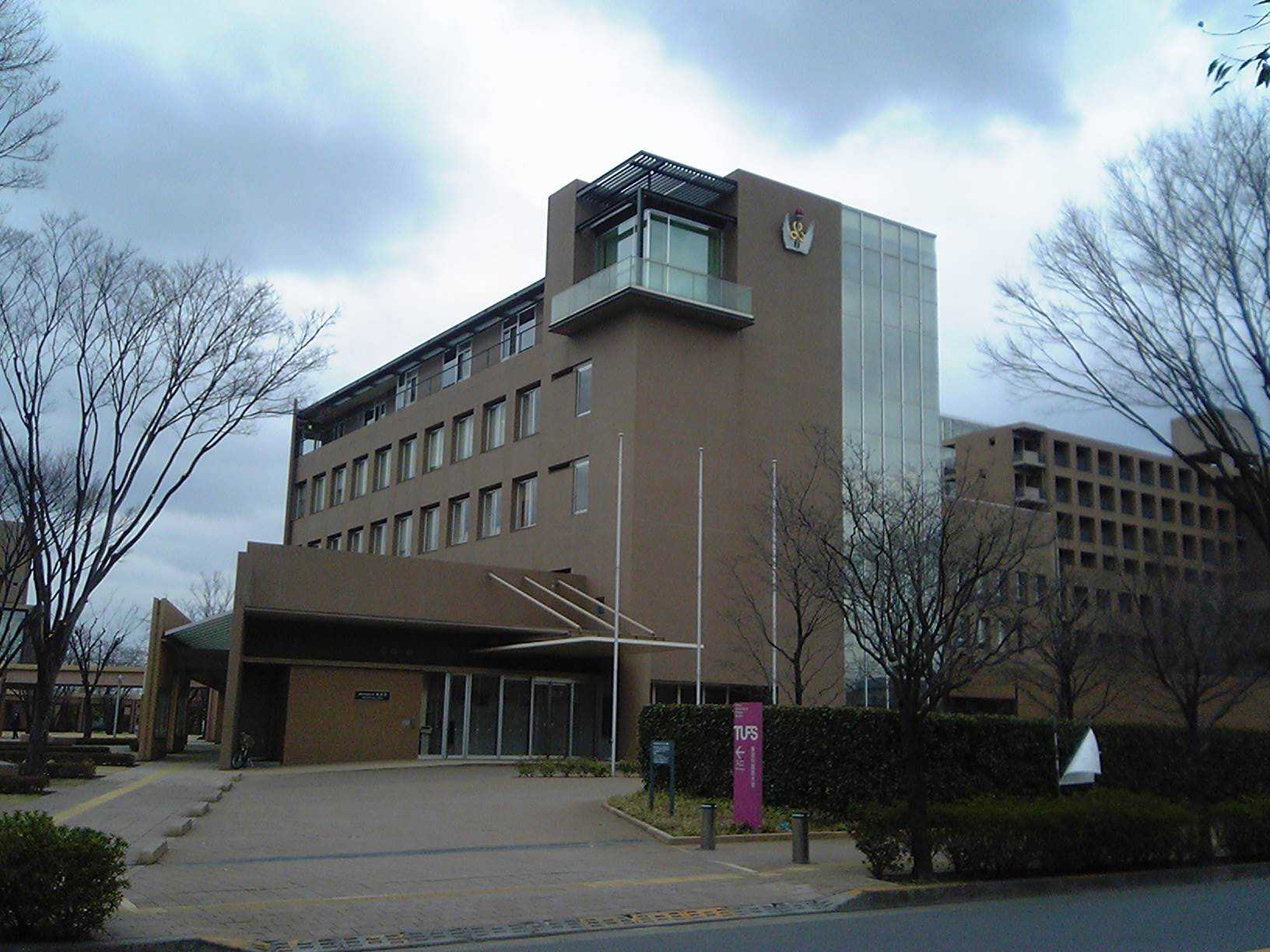 Tokyo University of Foreign Studies